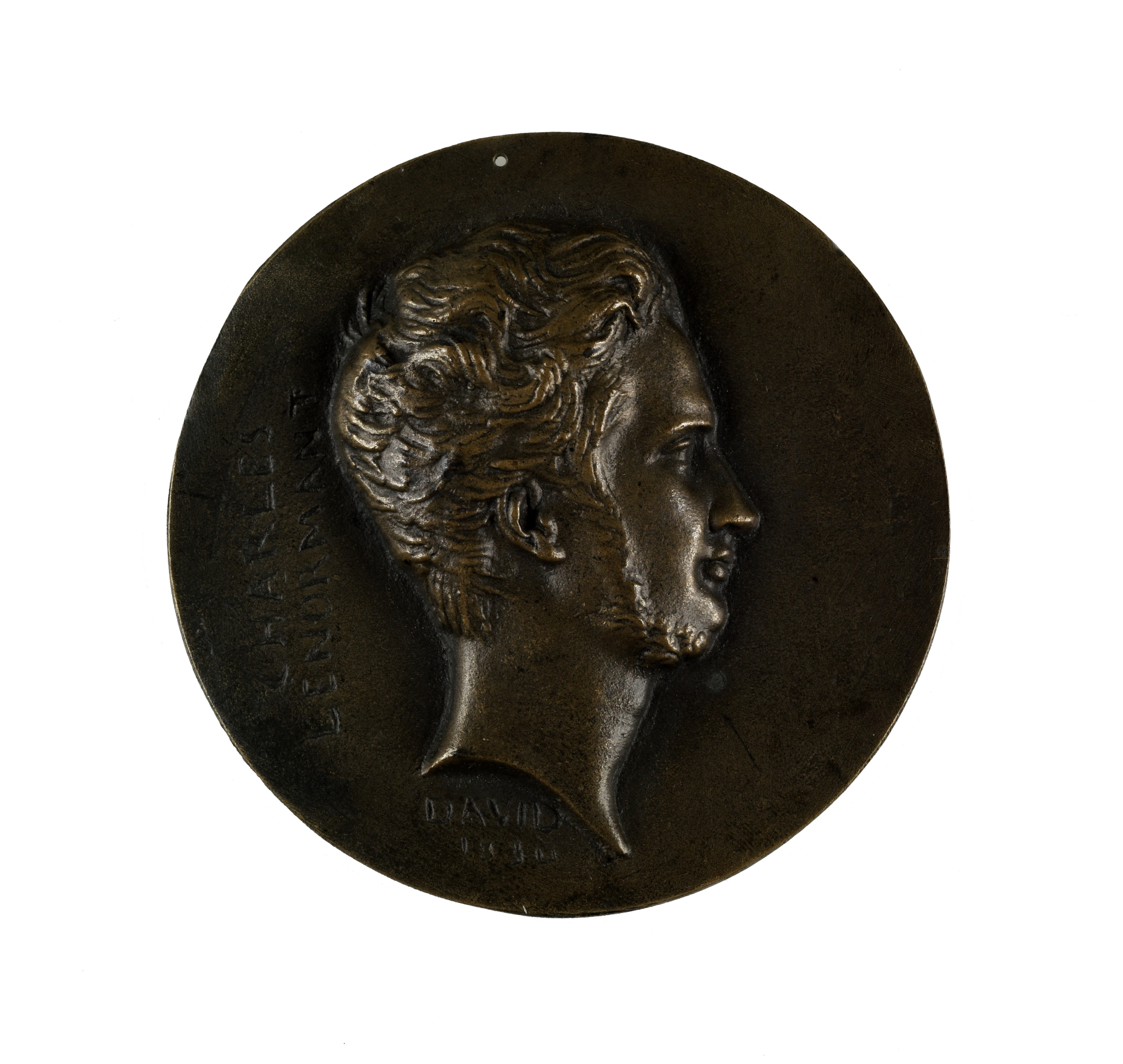 Charles Lenormant, French archaeologist and historian became passionately interested in archaeology while in Italy preparing for a career in law. Returning to France, he was appointed inspector of fine arts in 1825. Lenormant went to Egypt with Champollion in 1828 and to Greece as part of the Morée commission expedition. At the fall of Charles X, he held numerous official positions, though he was forced to resign in 1846 for his political convictions. He wrote a number of books on archaeology and history.